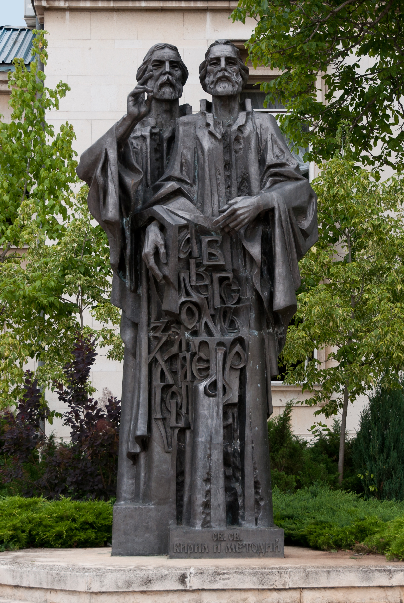 Saints Cyril and Methodius monument in the city of Vratsa, Bulgaria.